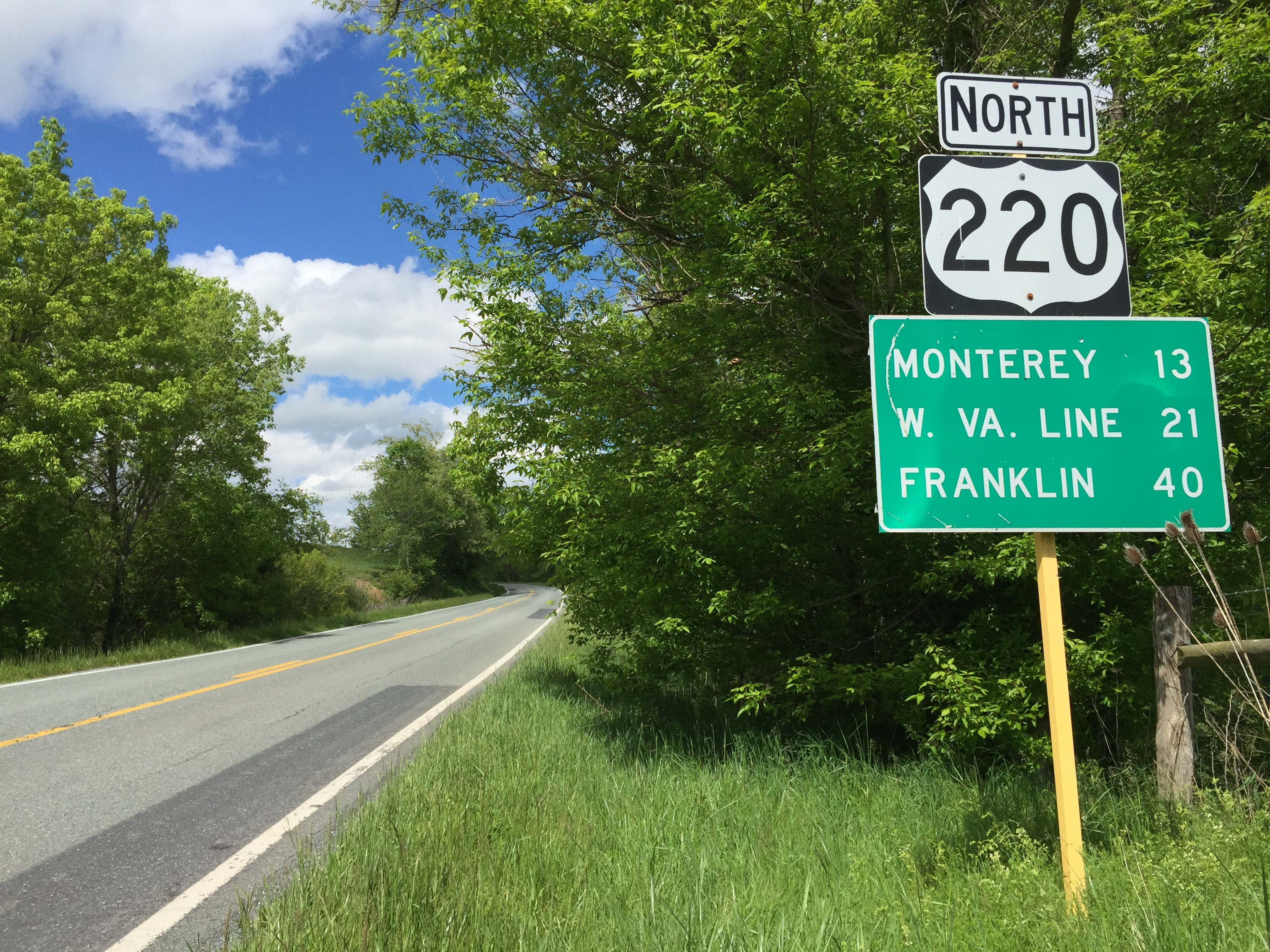 View north along Jackson River Road (U.S. Route 220) in southern Highland County, Virginia